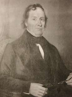 Ephraim Downes (1787-1860), Clockmaker